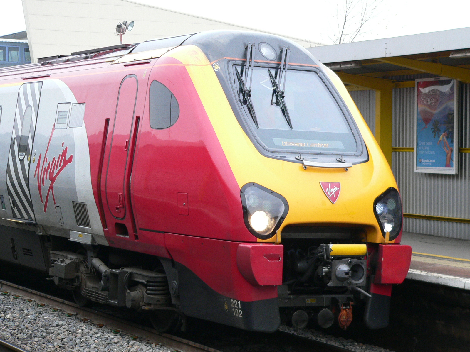 Virgin Voyager Class 221 DEMU 221102 at Bristol Parkway railway station with a northbound Cross-Country service to Glasgow Central.